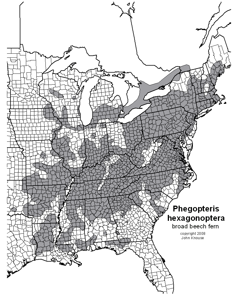 Distribution map of Phegopteris hexagonoptera